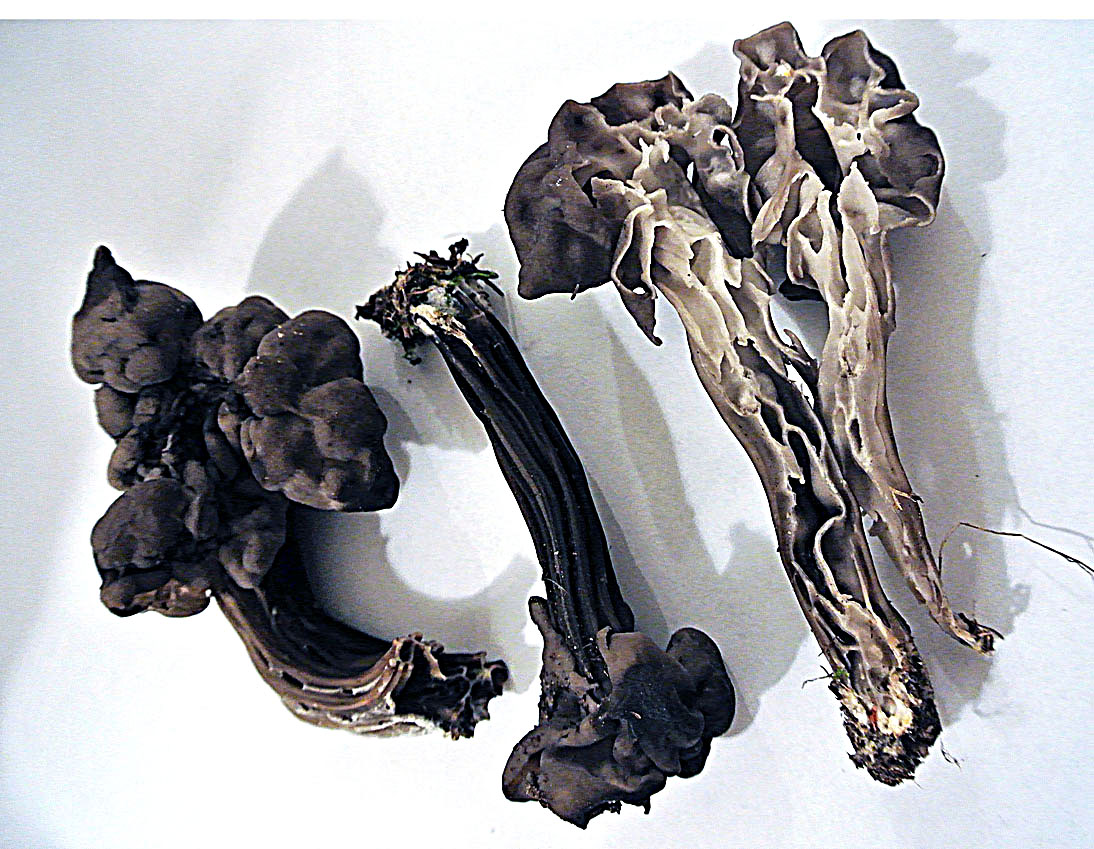 Showing the interior convolutions of the most widespread Elfin Saddle.